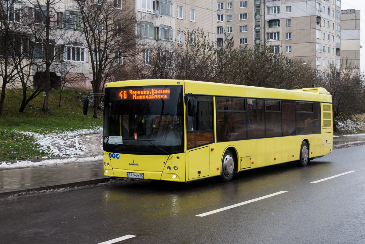 MAZ-203 bus in Lviv serving route # 46